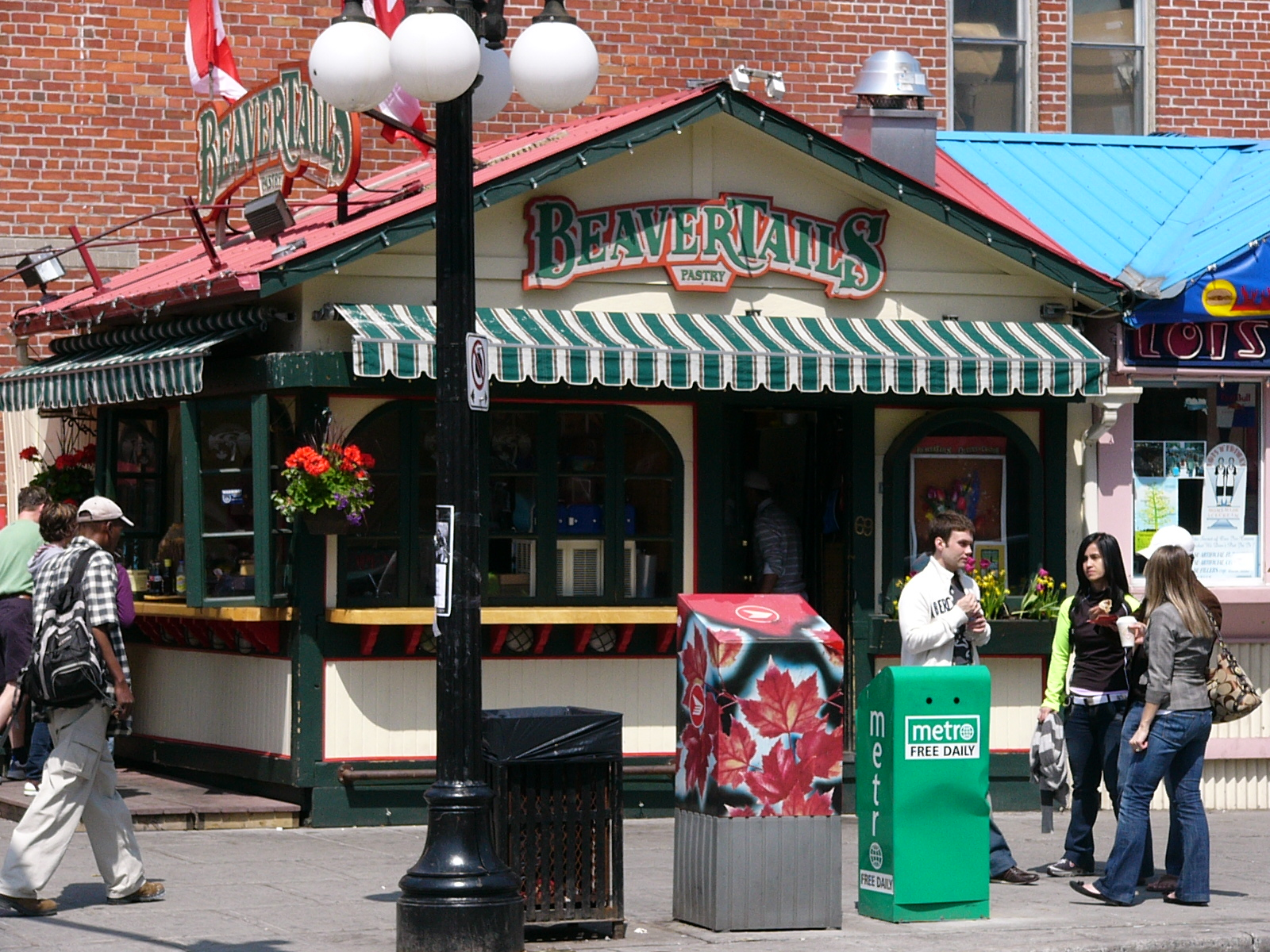 The original location of BeaverTails in the Byward Market, Ottawa, Ontario, Canada